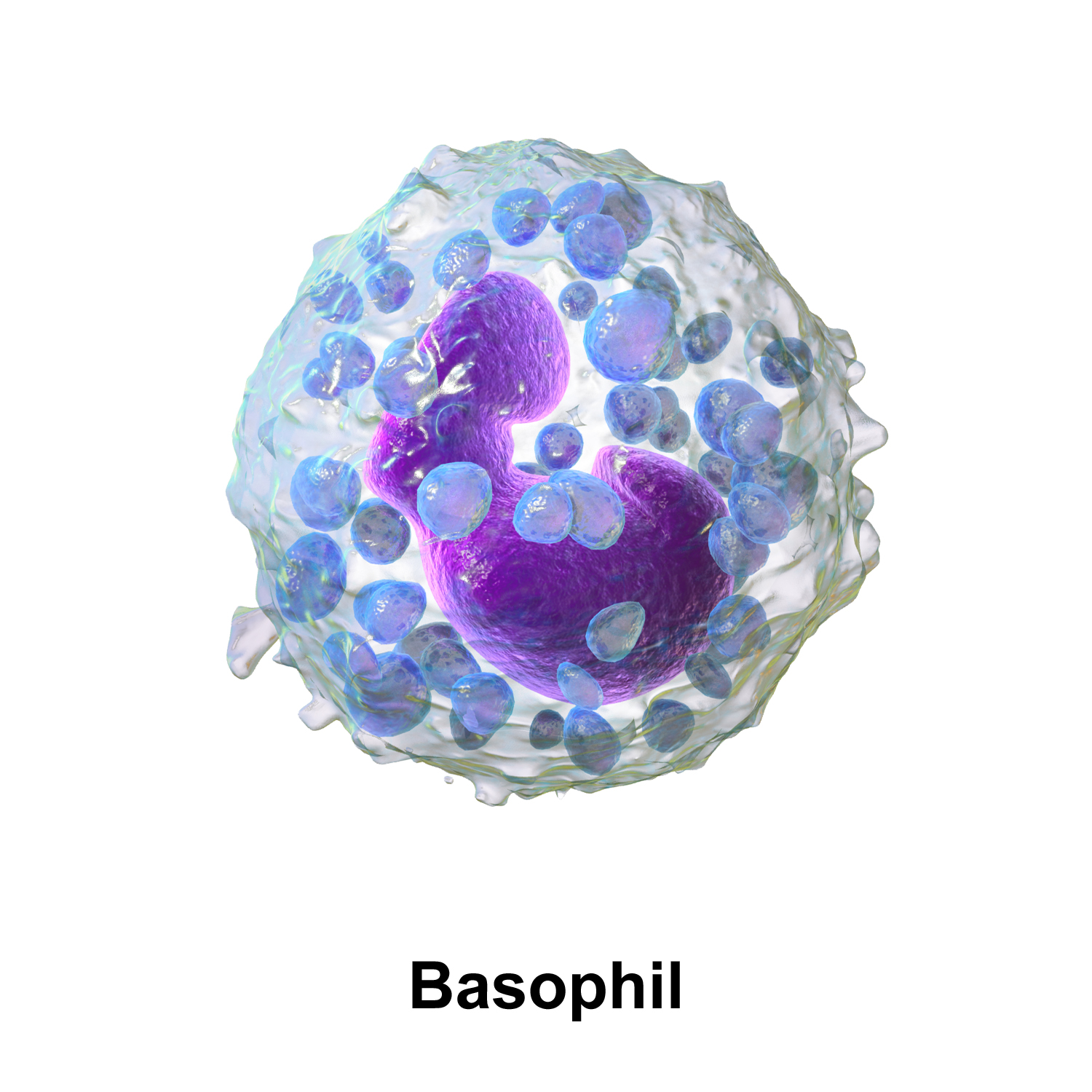 Basophil. See a full animation of this medical topic.